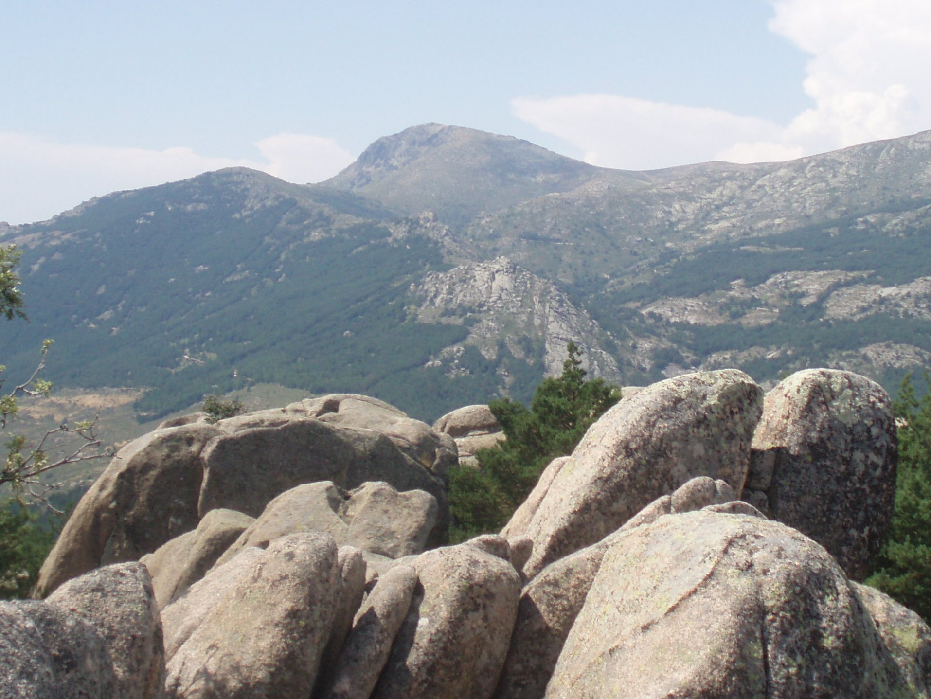 Eastern face of La Maliciosa peak (Sierra de Guadarrama, central Spain).